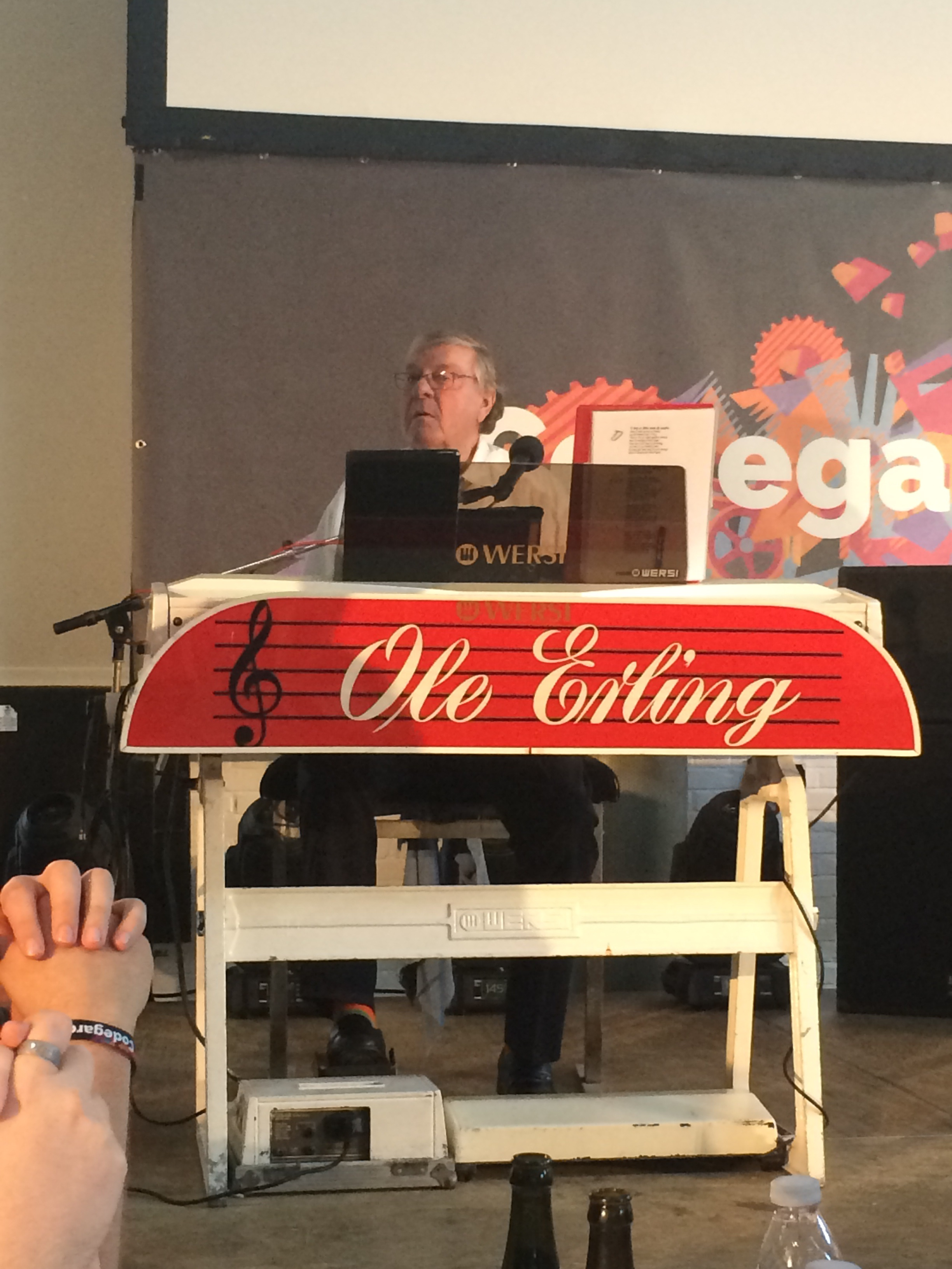 Umbraco CodeGarden 14 in Copenhagen, Norway